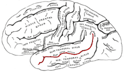 The superior temporal sulcus is the sulcus separating the superior temporal gyrus from the inferior temporal gyrus. The superior temporal sulcus is the first sulcus below the lateral sulcus.